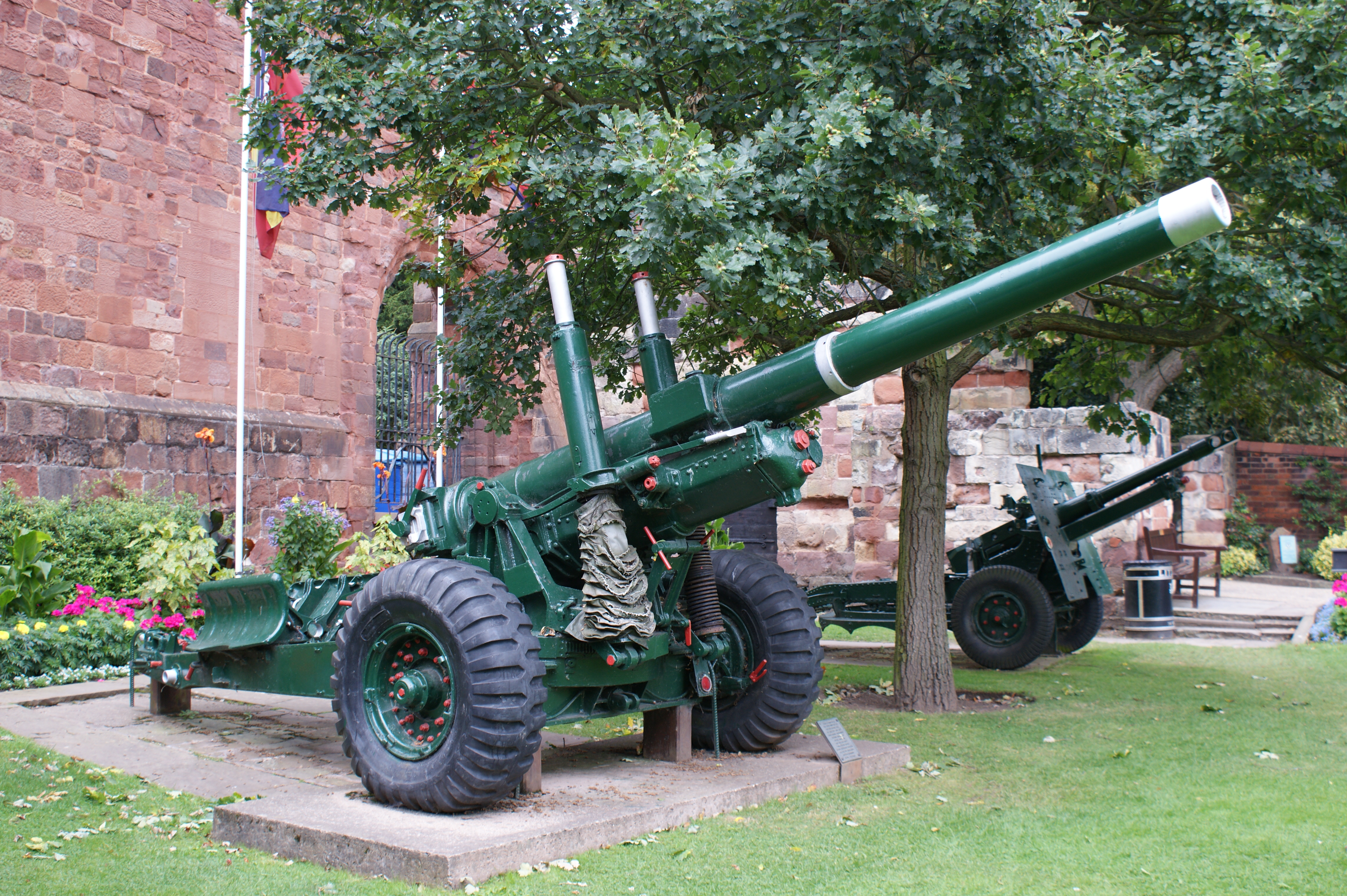 5.5" gun at the Shropshire Regiment Museum, Shrewsbury, 09/09.